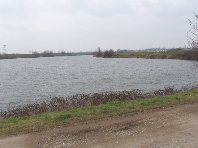 Low Maynard reservoir, Lea Valley View north from Ferry Lane, just within Waltham Forest. There is a large area of reservoirs in the Lea Valley around here.